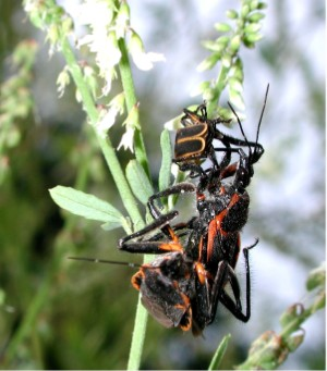 Image of a mating pair of Apiomerus feeding on a "soldier beetle"